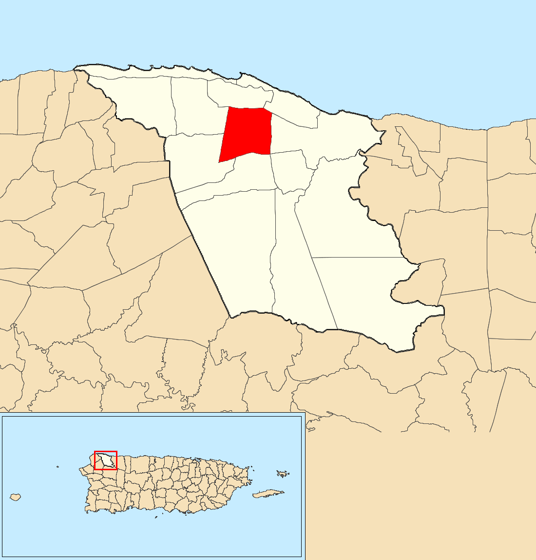 Mora, Isabela, Puerto Rico locator map